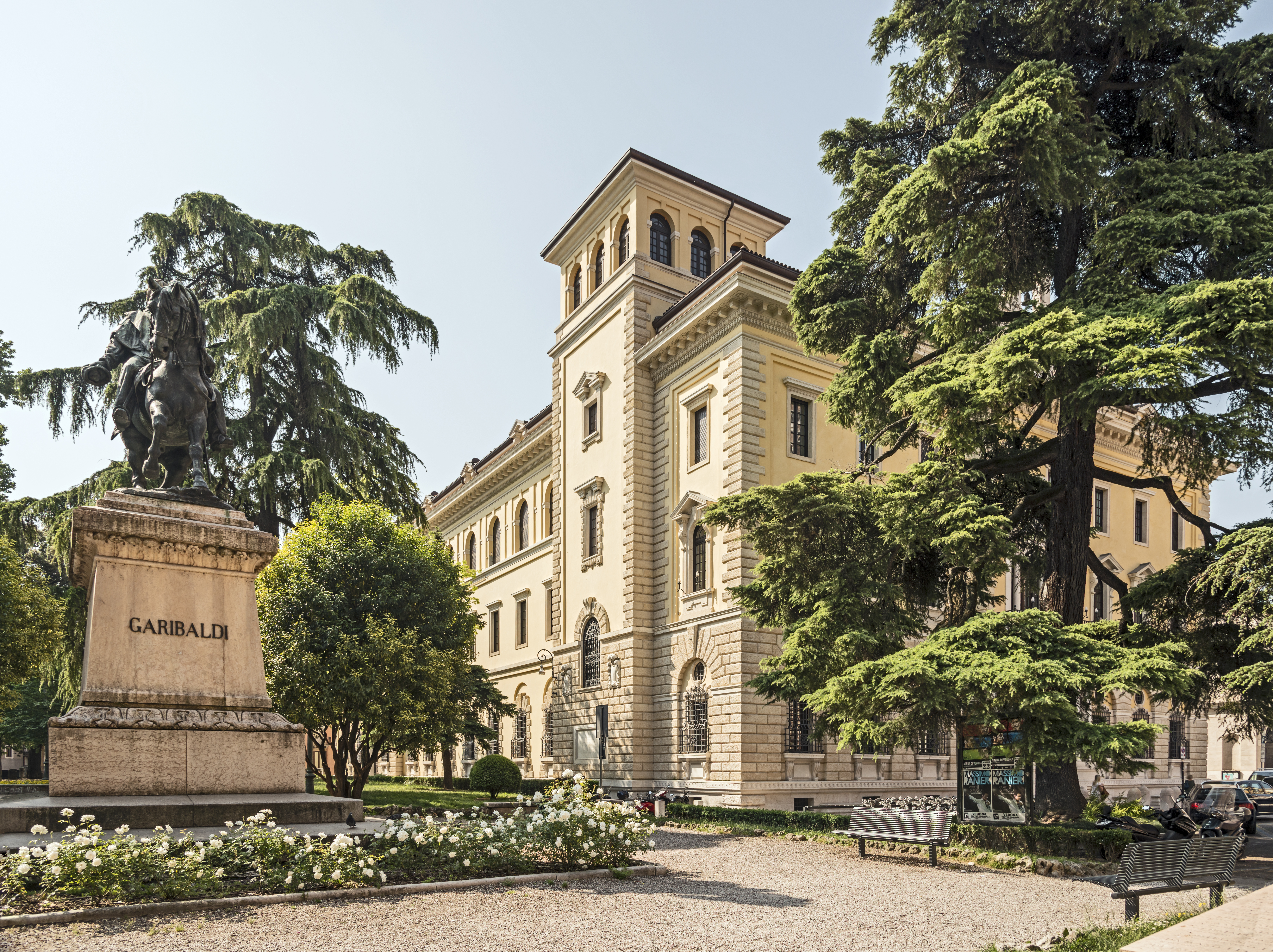 Independence Square in Verona, with the Post Office building and the statue of Gariblidi.